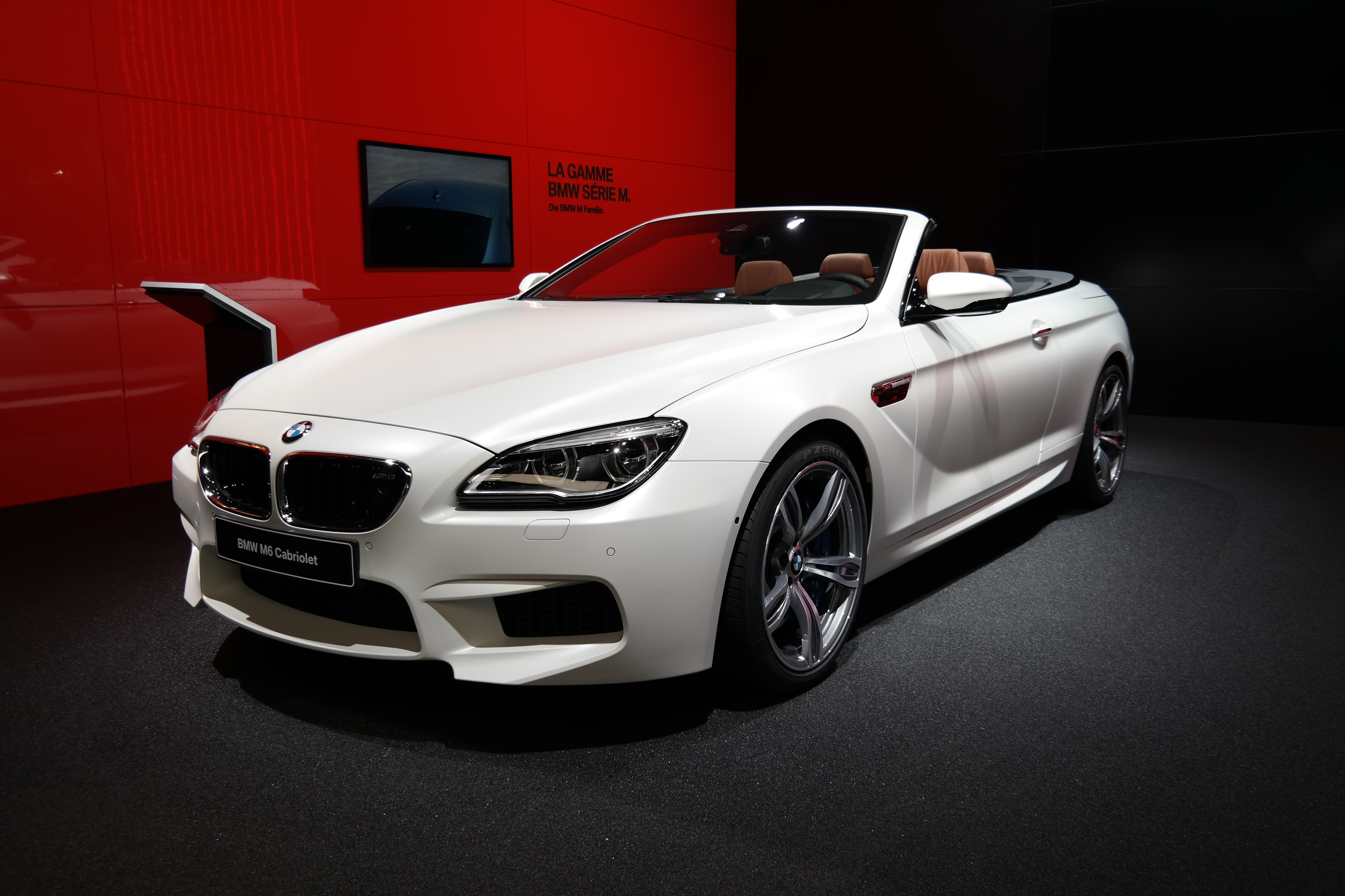 Geneva Motor Show 2017 (photo taken on the first press day)